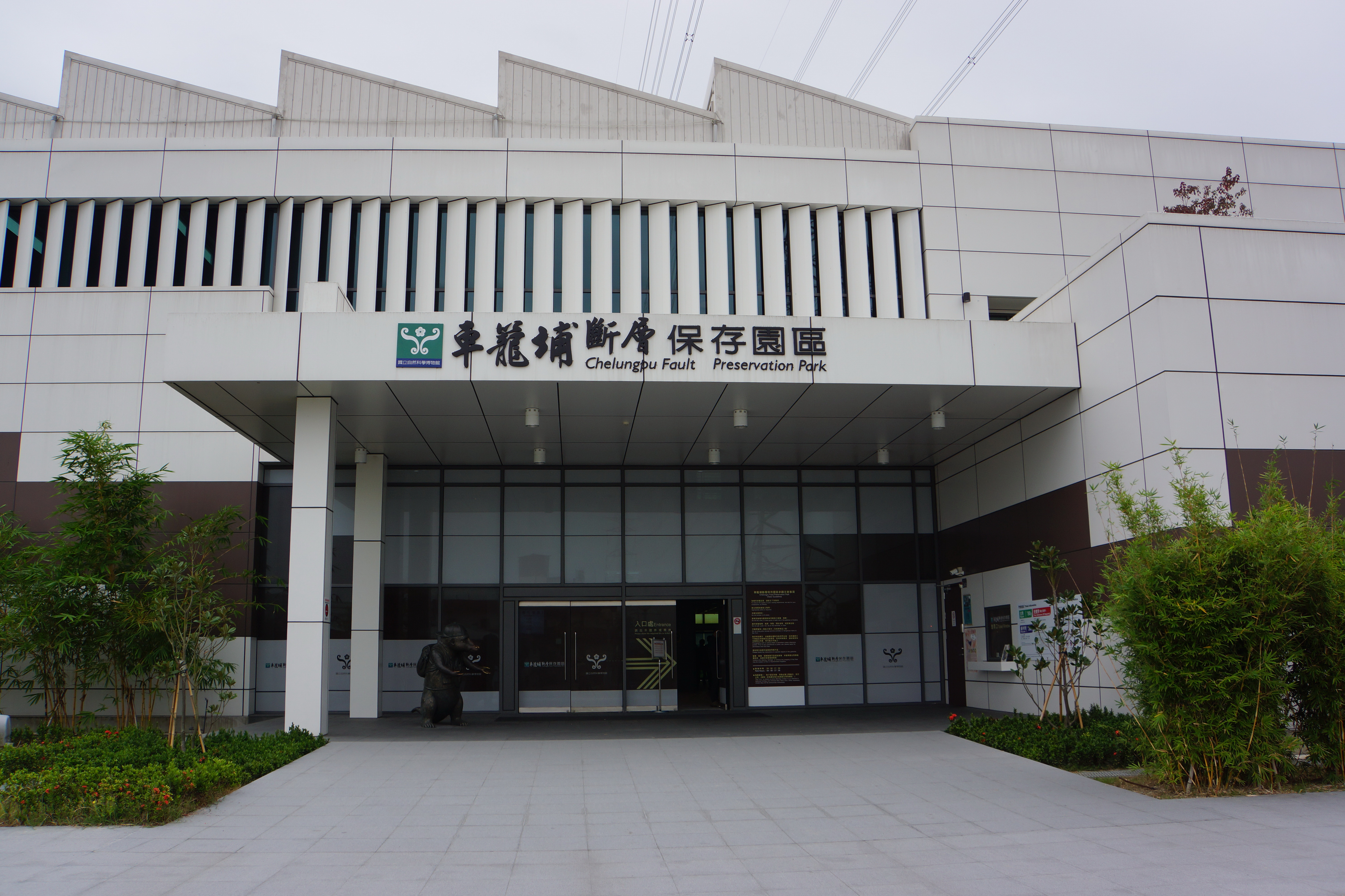 Chelongpu Fault Preservation Park 車籠埔斷層保存園區